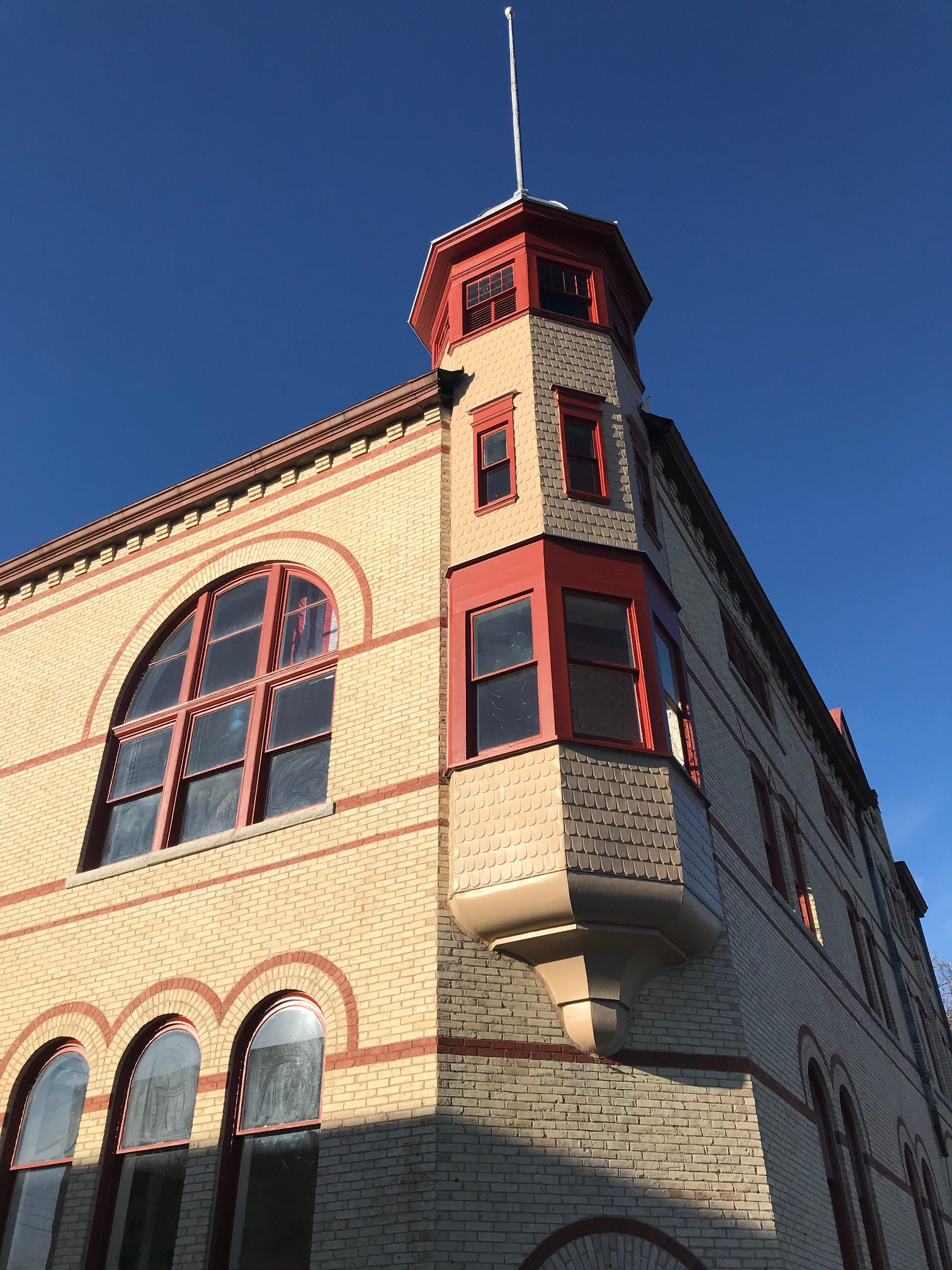 Danes Hall turret Renovation Complete